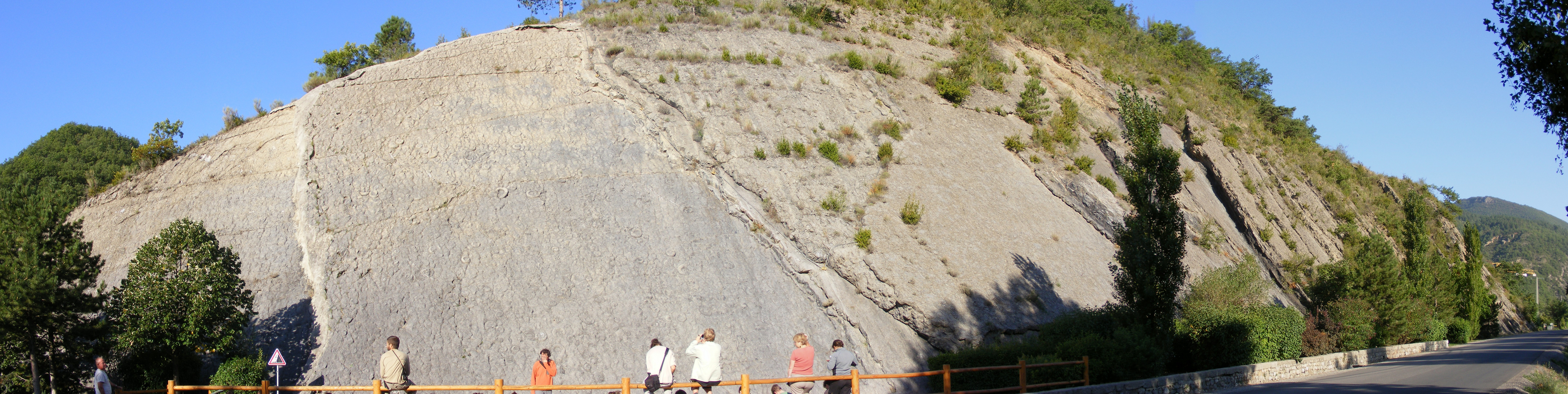 Ammonite slab from the geological reserve of Digne-les-Bains (Alpes de Haute Provence, France) 6 photographs used to assemble the panorama (shot on 6th September 2008)